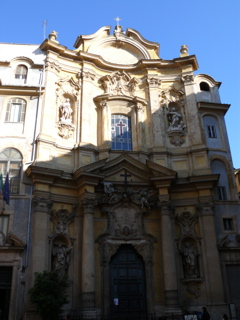 John Weretka